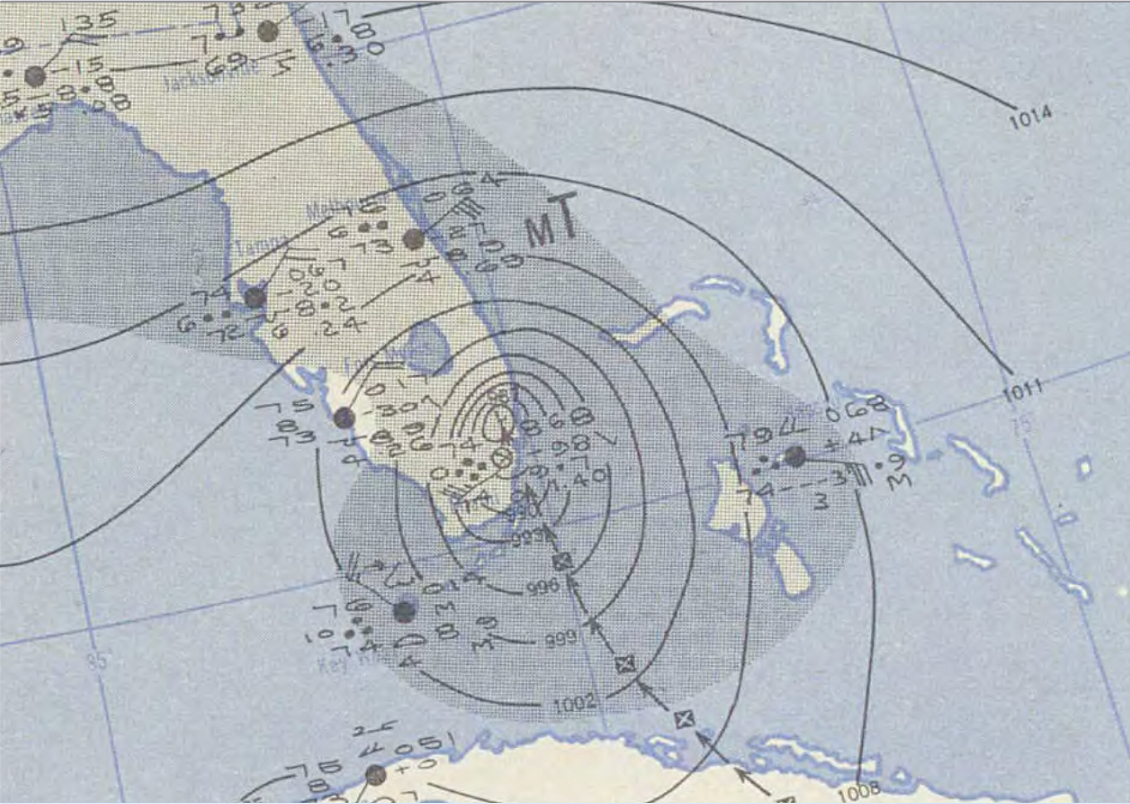 Surface weather analysis of Hurricane King on 18 October 1950.